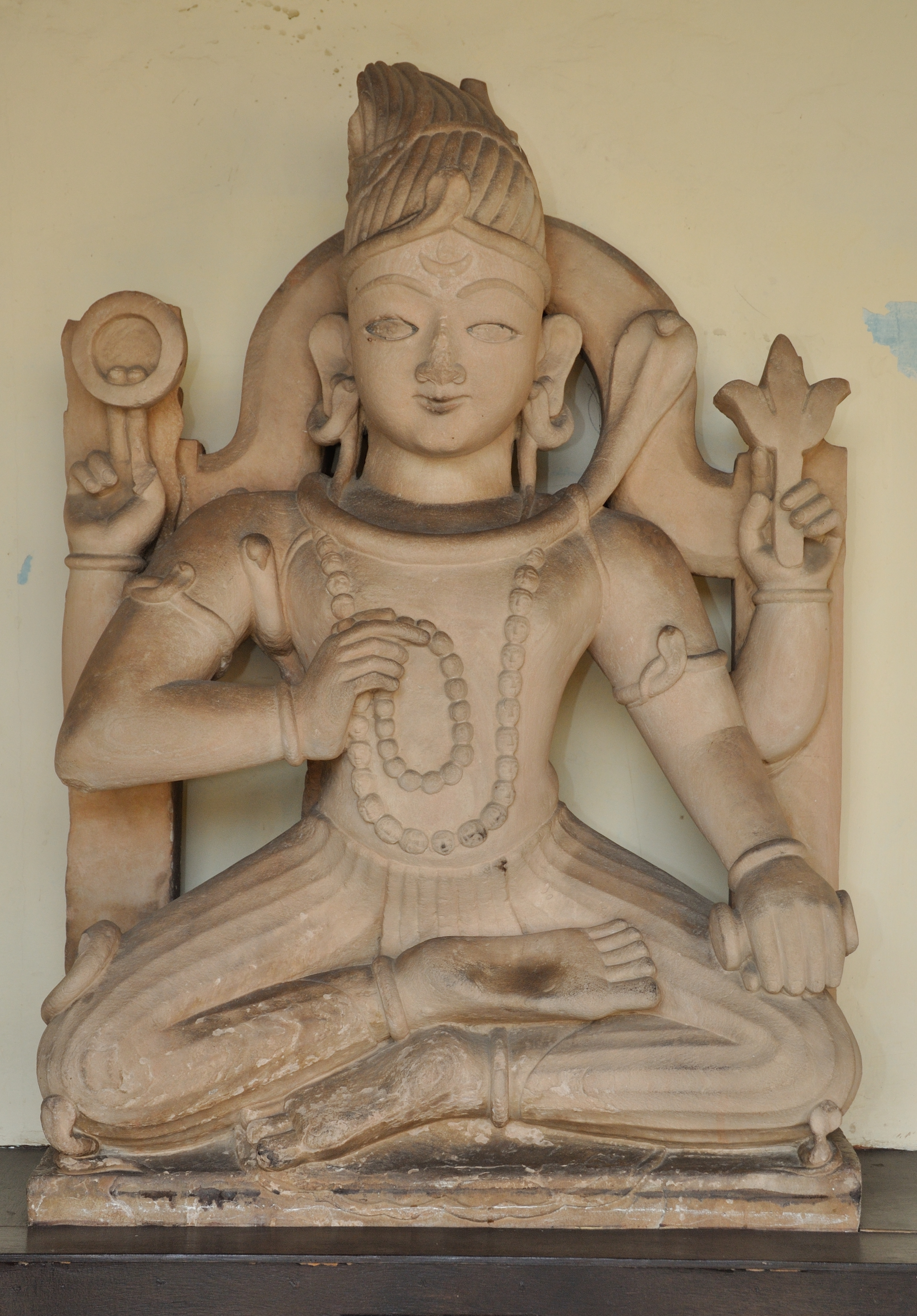 This artefact resides at the Government Museum, (hi: Rashtriya Sangrahalaya) formerly The Curzon Museum of Archaeology, Museum Road or Murari Lal Rajpal road, Dampier Nagar, Mathura, Uttar Pradesh, India. This museum is administrating by the State Government of Uttar Pradesh of India.